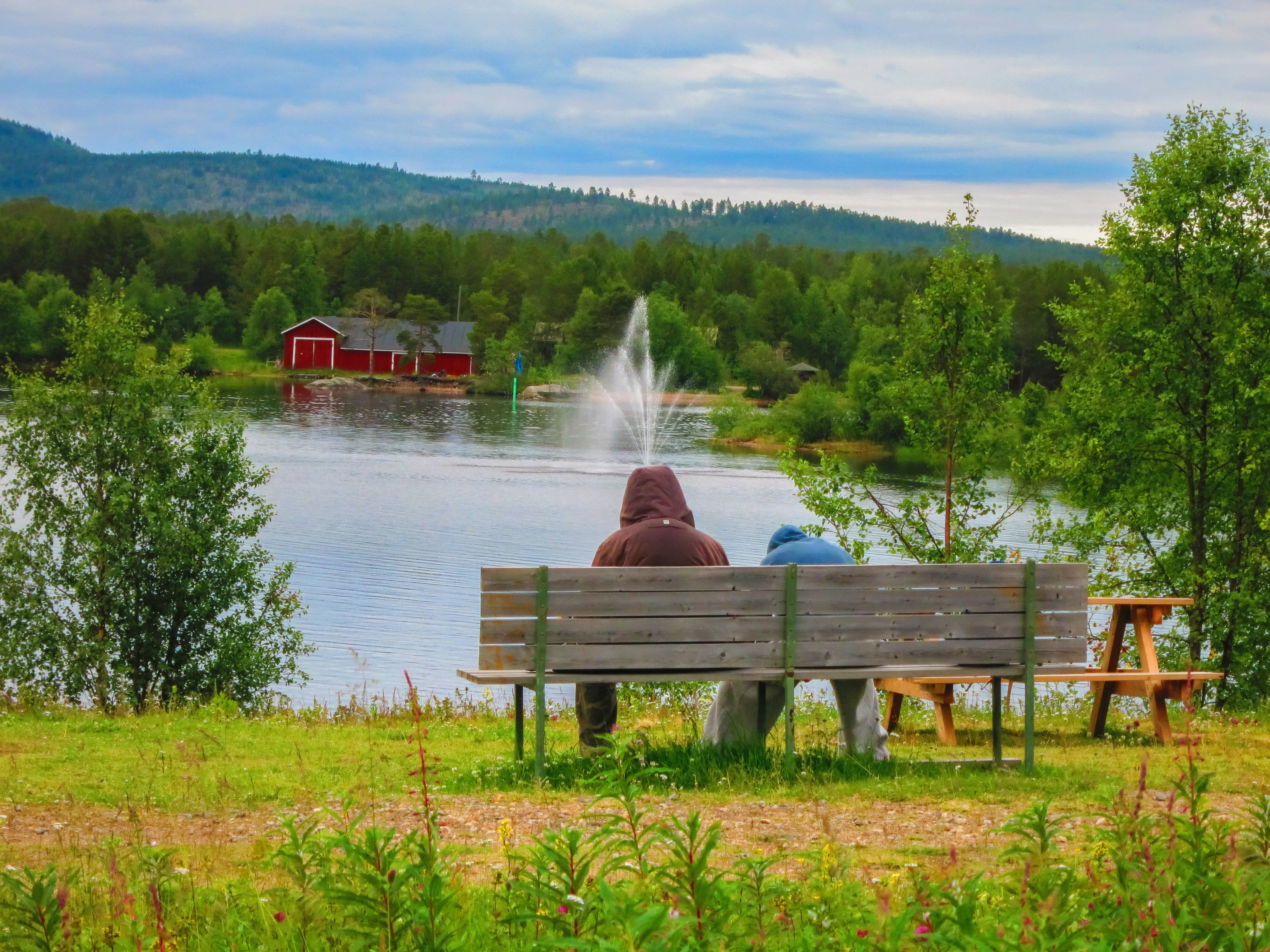 Summer evening in Inari (Lapland, Finland). View from village centre to North, over mouth of Juutuanjoki River.